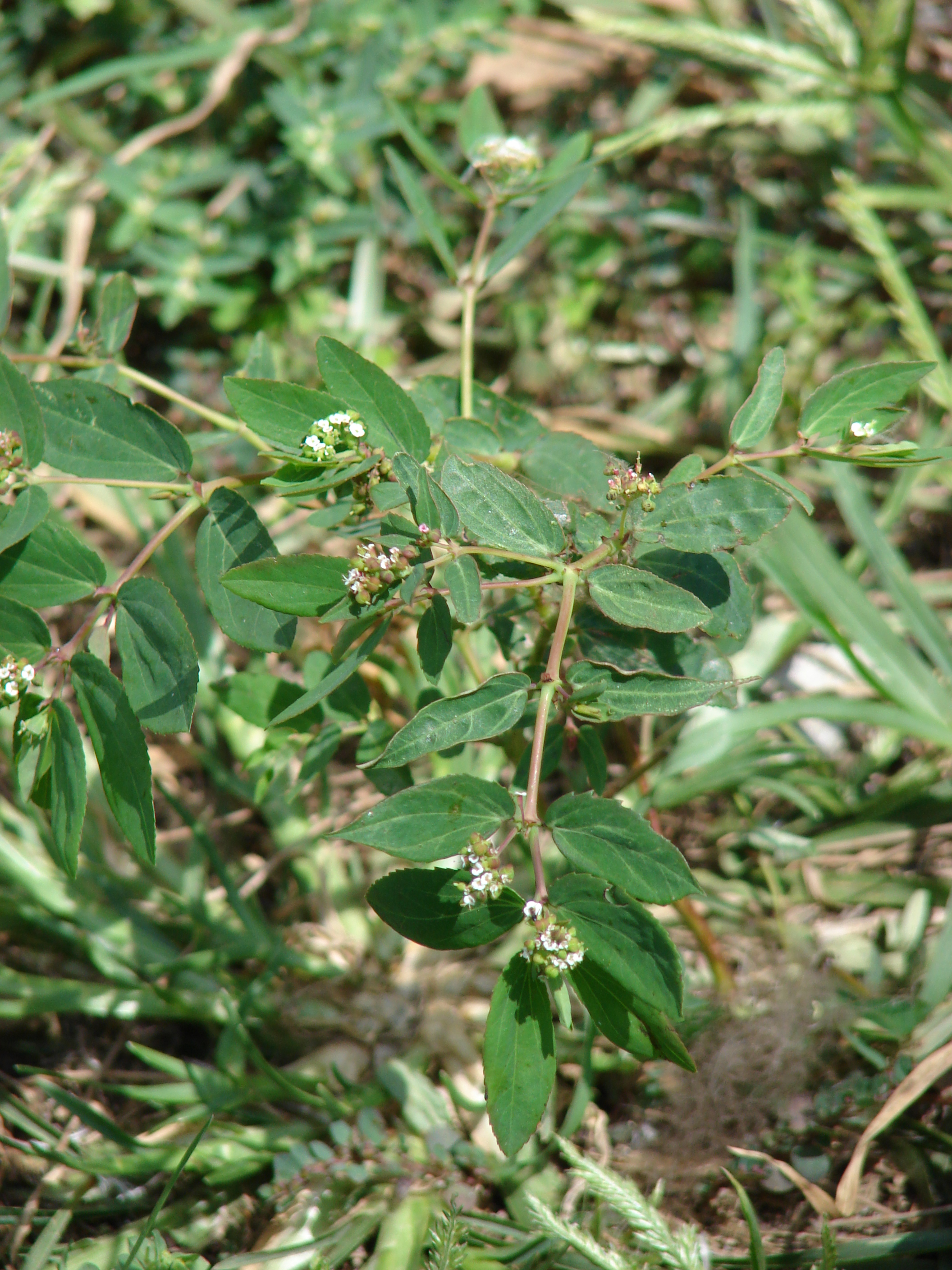 Chamaesyce hypericifolia (leaves flowers and fruit). Location: Midway Atoll, Halsey Dr around residences Sand Island